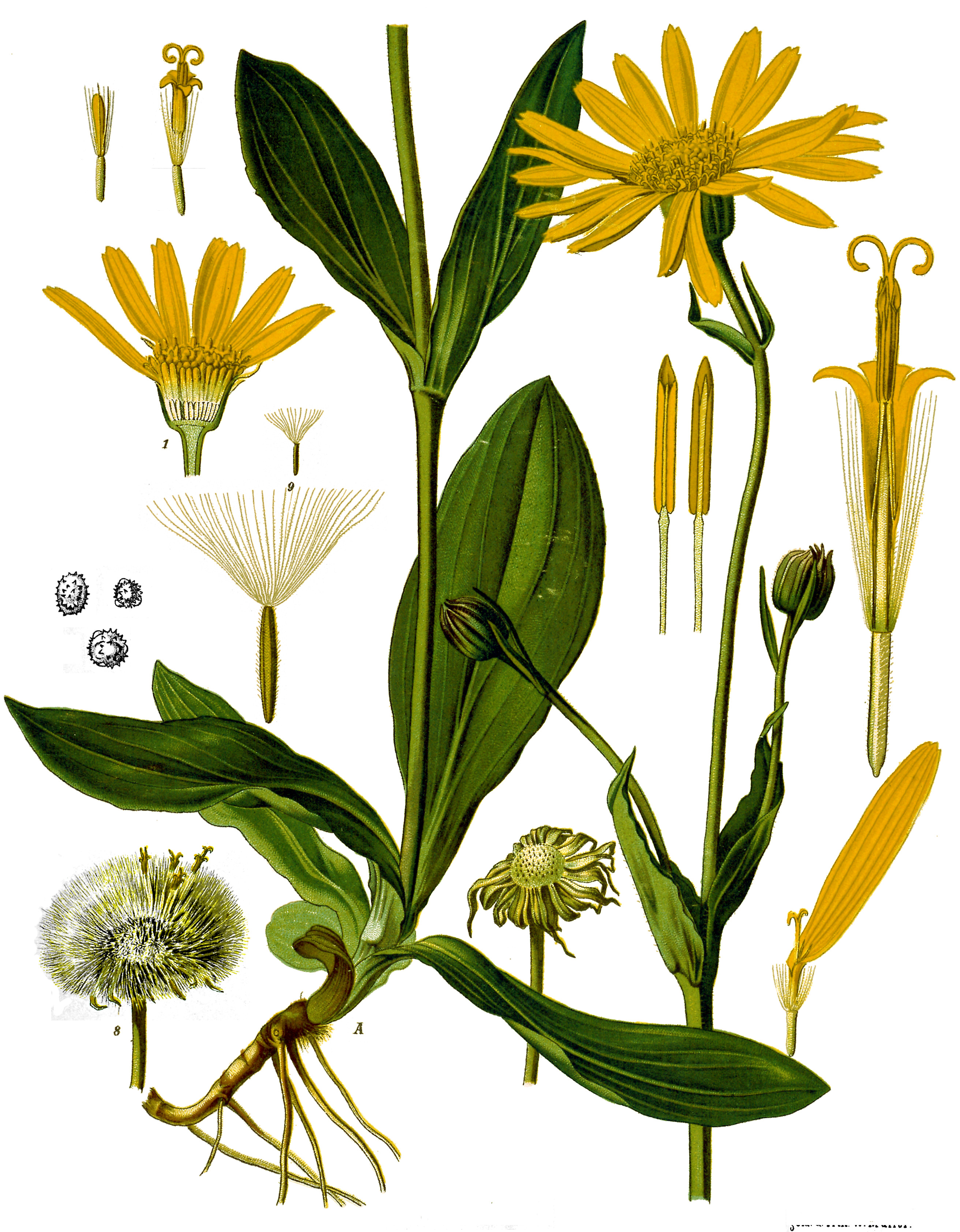 Arnica montana, illustration without captions.